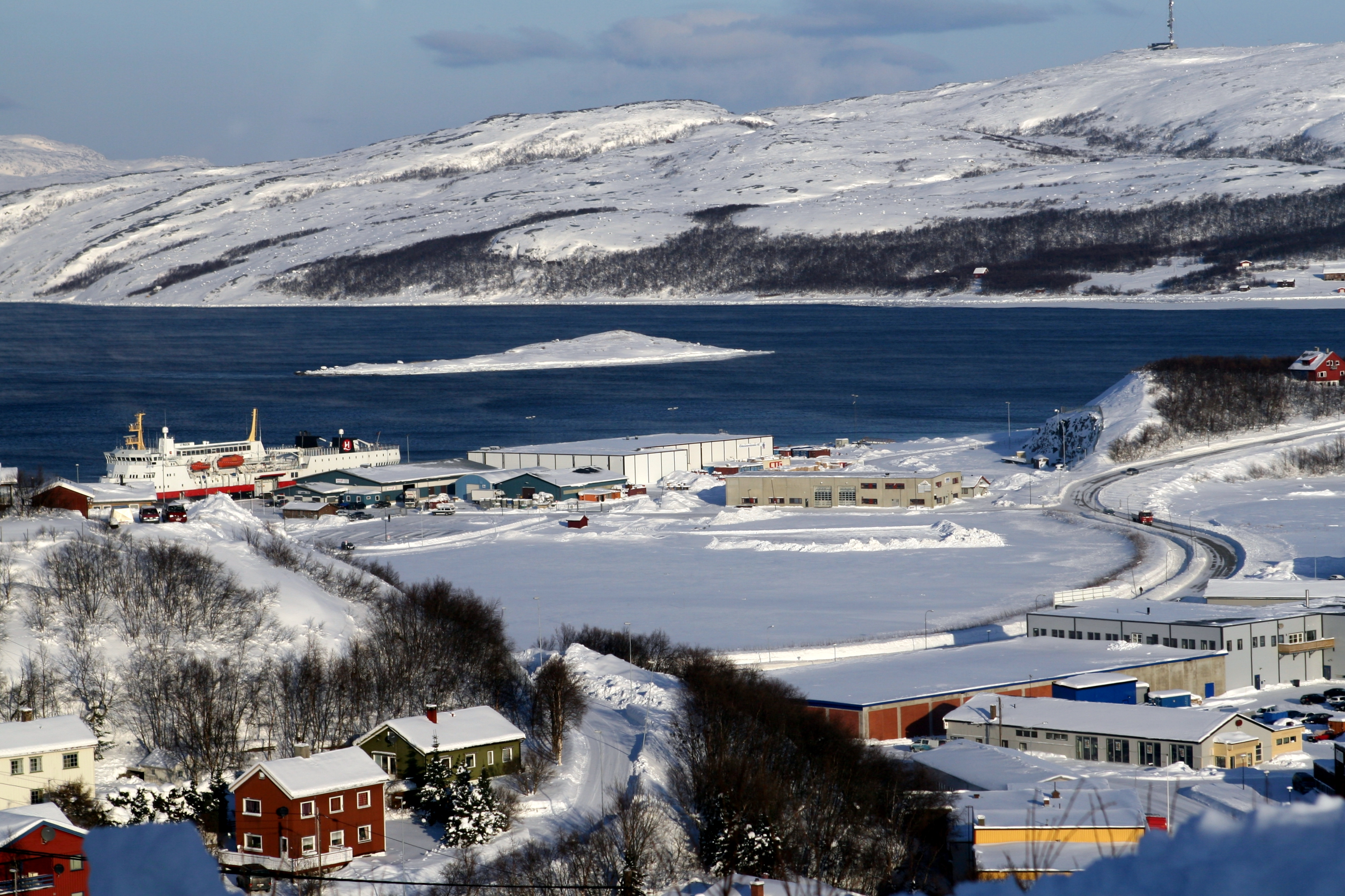 M/S Lyngen lies by the quay in Kirkenes. Winter 2006-2007.